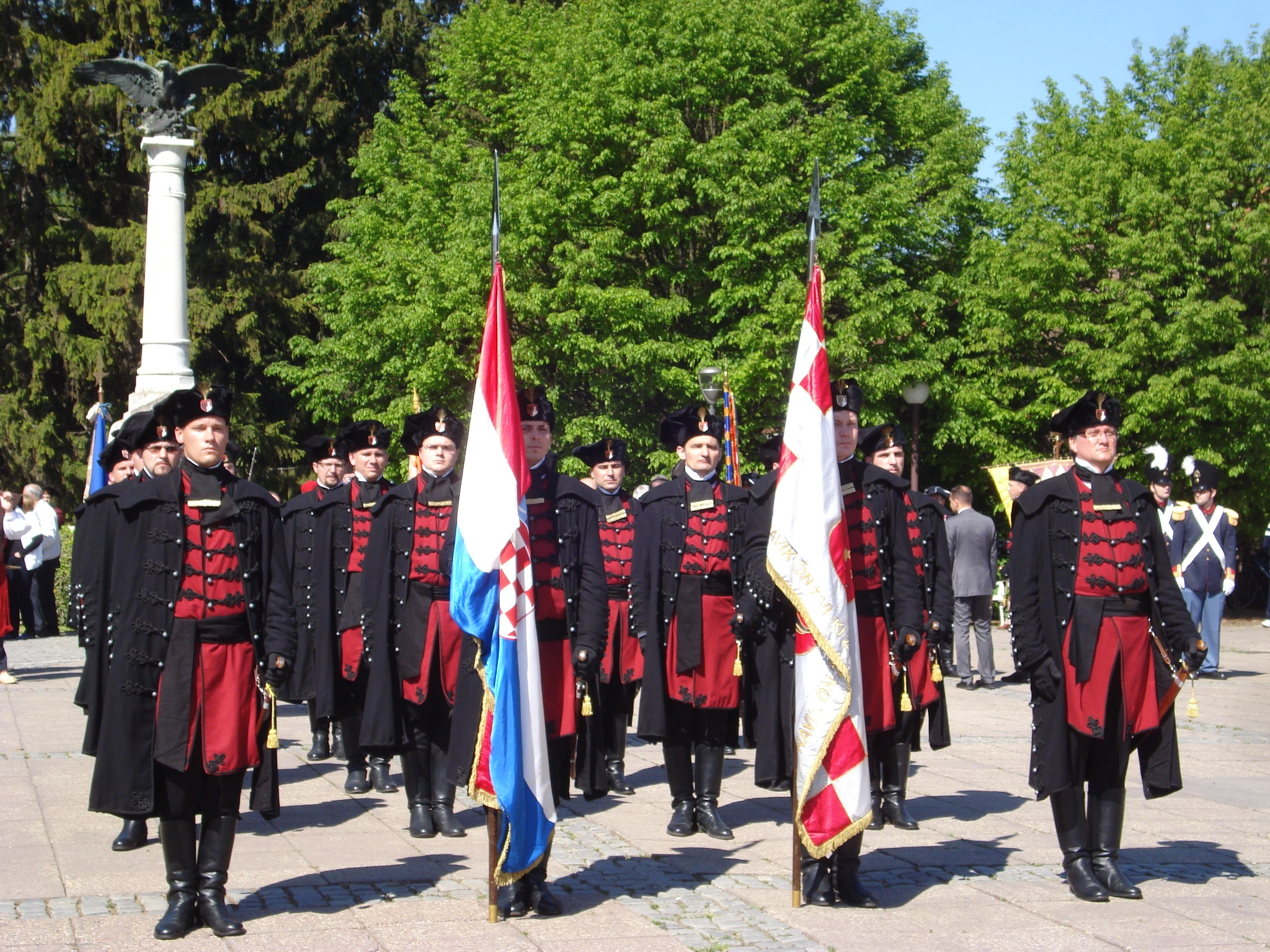 Zrinski guard - historical military unit from 16th century (Čakovec, Croatia) - guardsmen during a ceremony at Čakovec Republic Square